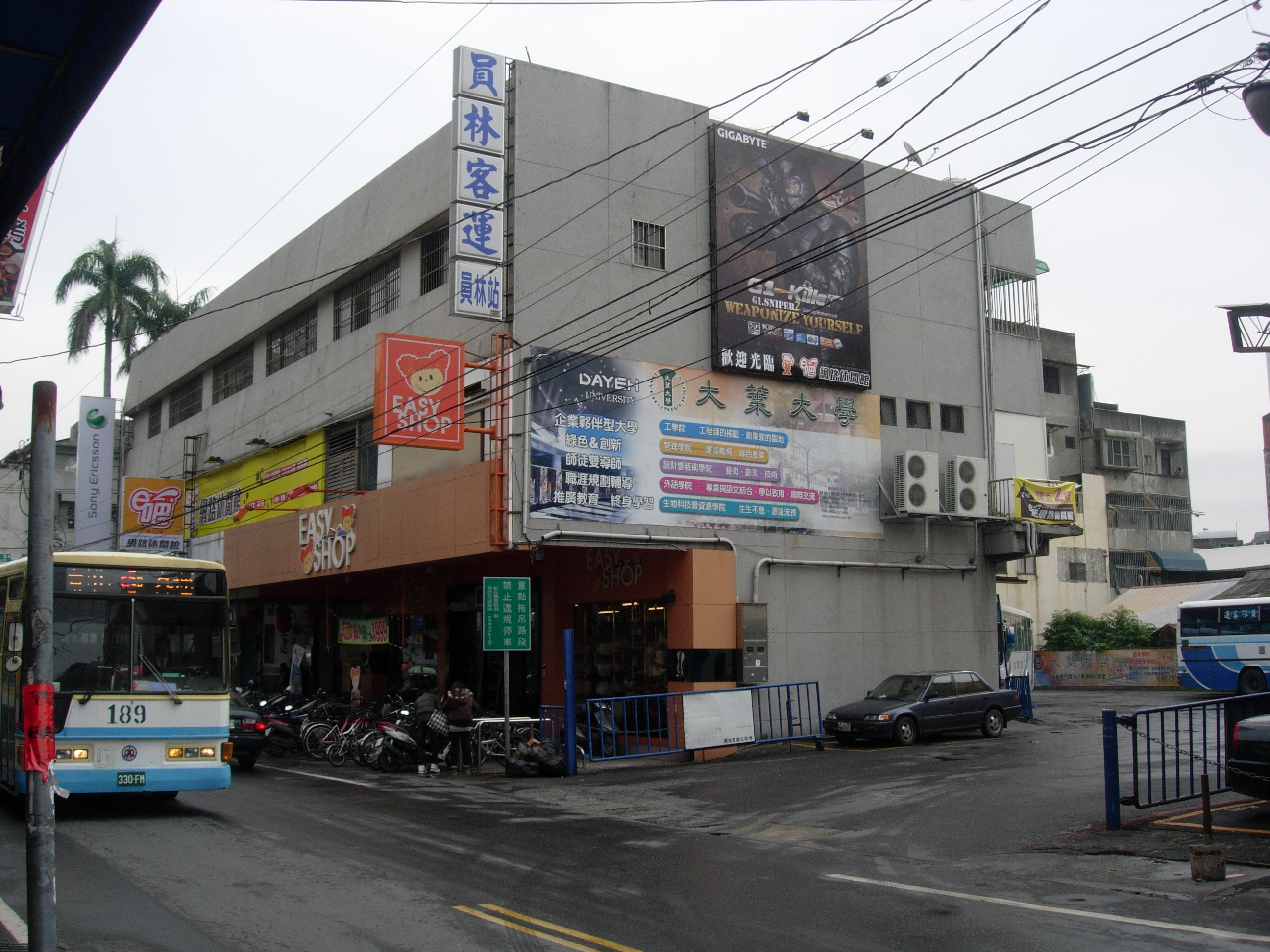 Yuanlin Bus Yuanlin Station中文（台灣）: 員林客運員林站